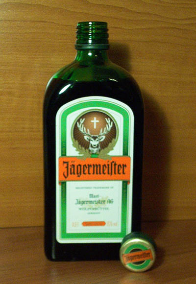 A bottle of Jägermeister, photo by User:bbx. Taken from en: Wikipedia